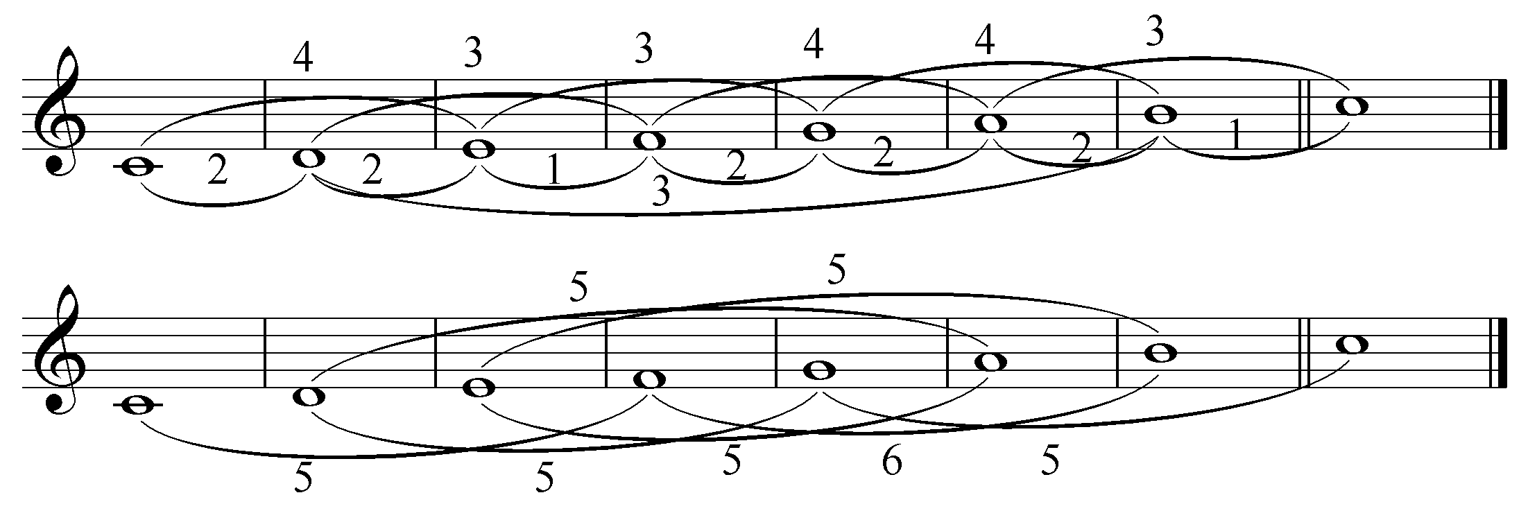 Deep scale property of the diatonic scale. // PCOccurrence// 00// 12// 25// 34// 43// 56// 61